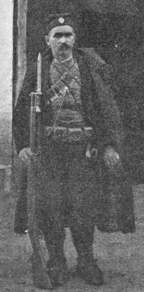 Petar Kacarević, photography taken in 1906.